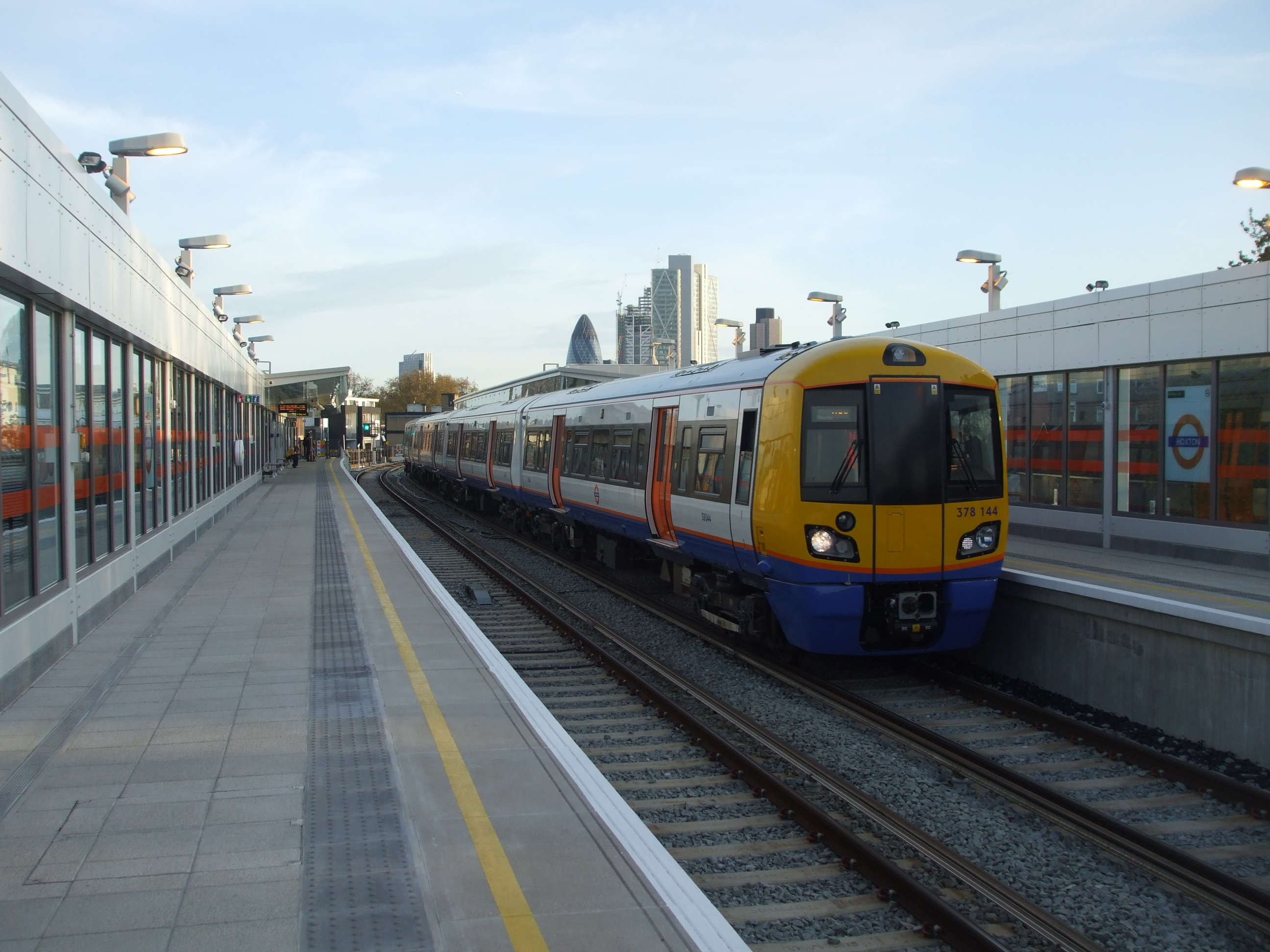 Class 378 unit 378144 calls at Hoxton with a Dalston Junction service on day of opening